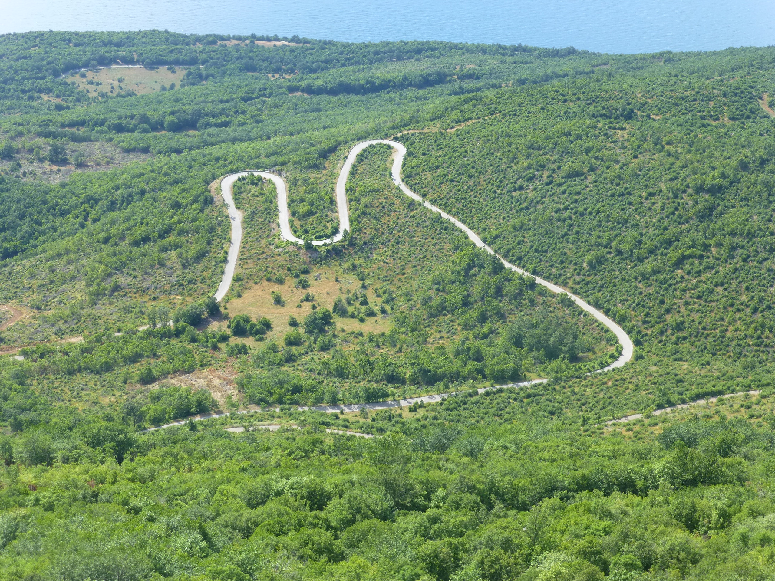 On Highway P504 in National Park Galičica. The western slope of the mountains, looking toward Lake Ohrid.